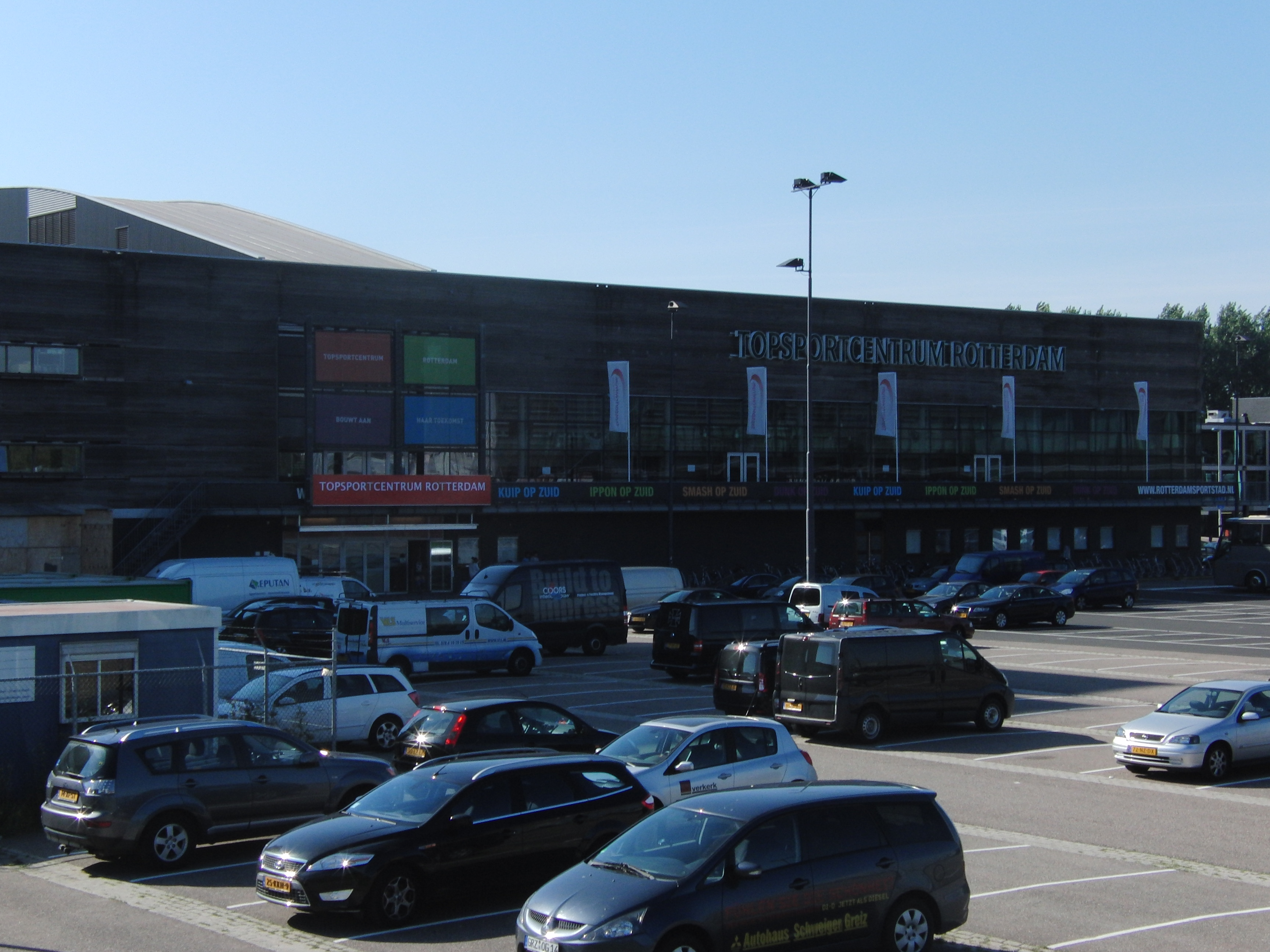 Photograph of Topsportcentrum Rotterdam